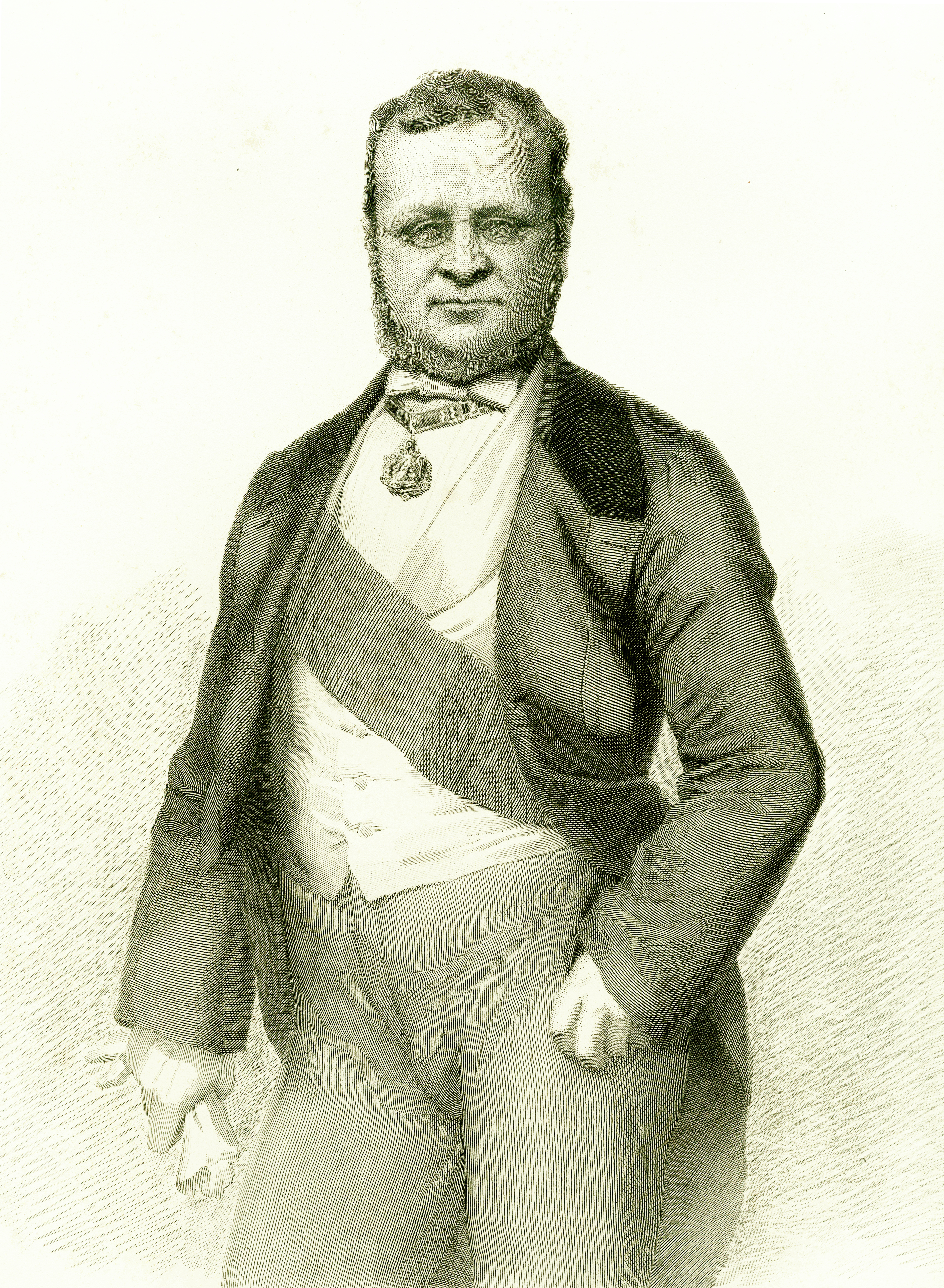 Portrait of Camillo Benso, Conte di Cavour, circa 1860. Scanned from the original engraving and cleaned. The as-scanned image, before cleaning, is Cavour_engraving_-_as_scanned.jpg